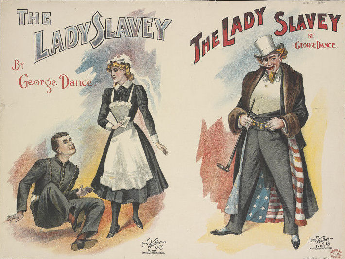 Scan of a poster for the original London production of 'The Lady Slavey' (1894) at the Avenue Theatre